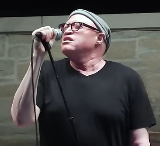 Malford Milligan at Tosafest performing with Greg Koch in Wisconsin 2016